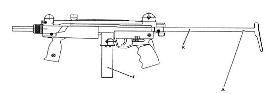 PM Md. 1996 ASALT submachine gun technical drawing.